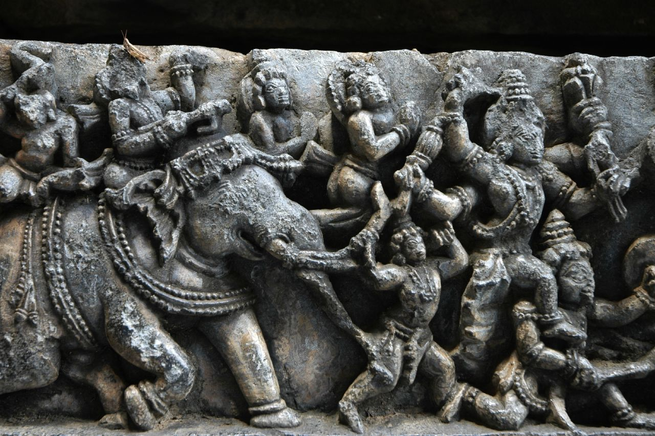 Stone relief of warriors and elephant.stone sculpture